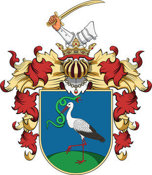 Coat of arms of Becskeháza, Hungary